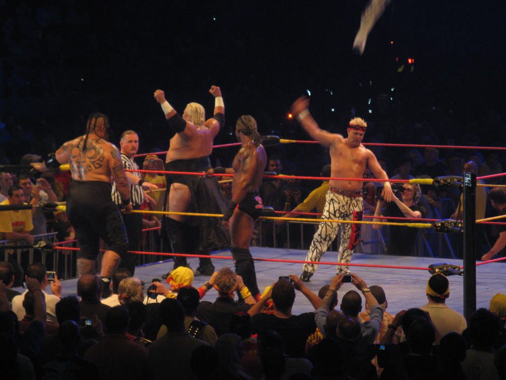 Hulkamania Tour @ Rod Laver Arena. Melbounre, AUS.